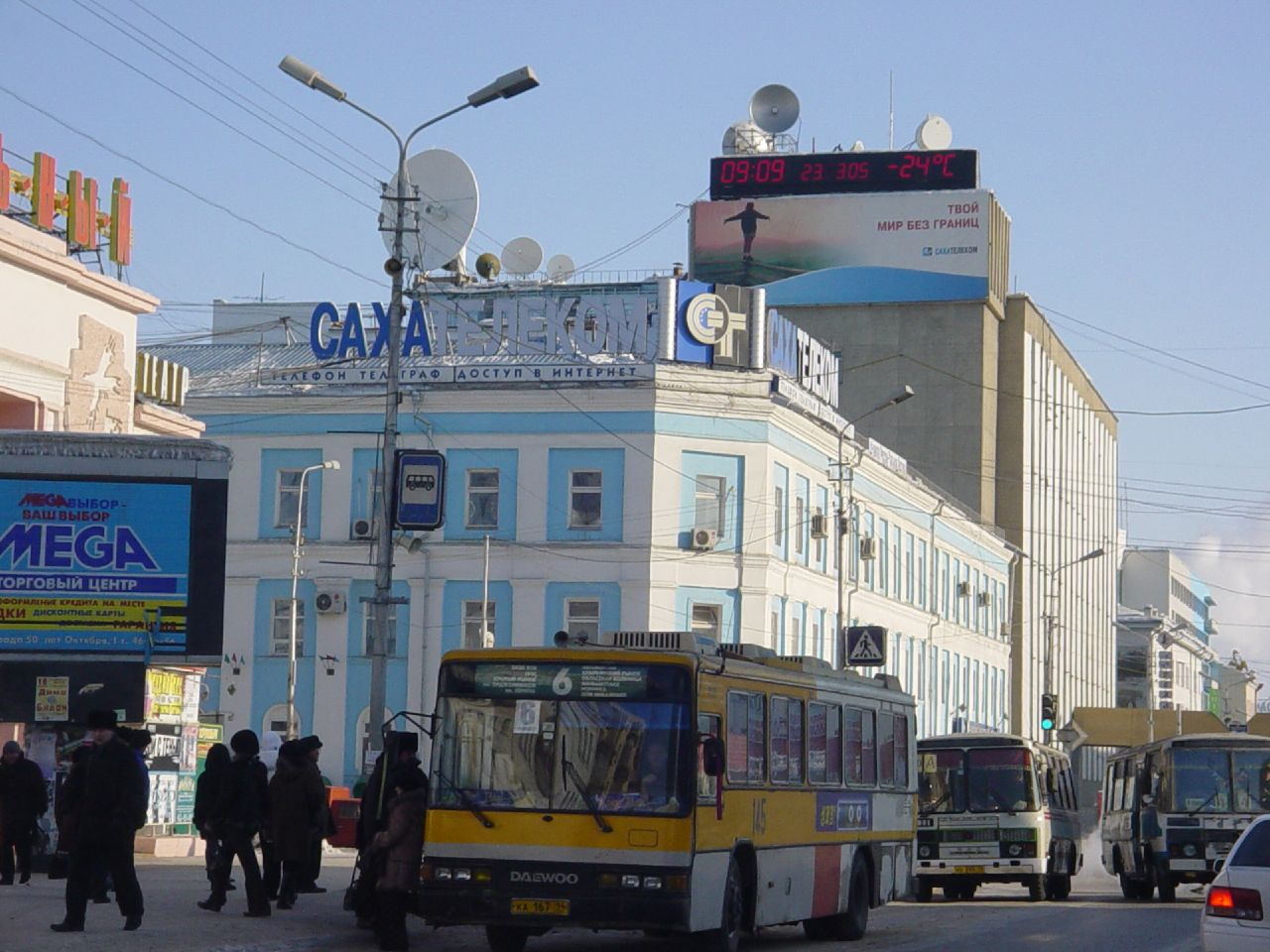 Calle principal, The main street in Yakutsk Location: Yakutsk